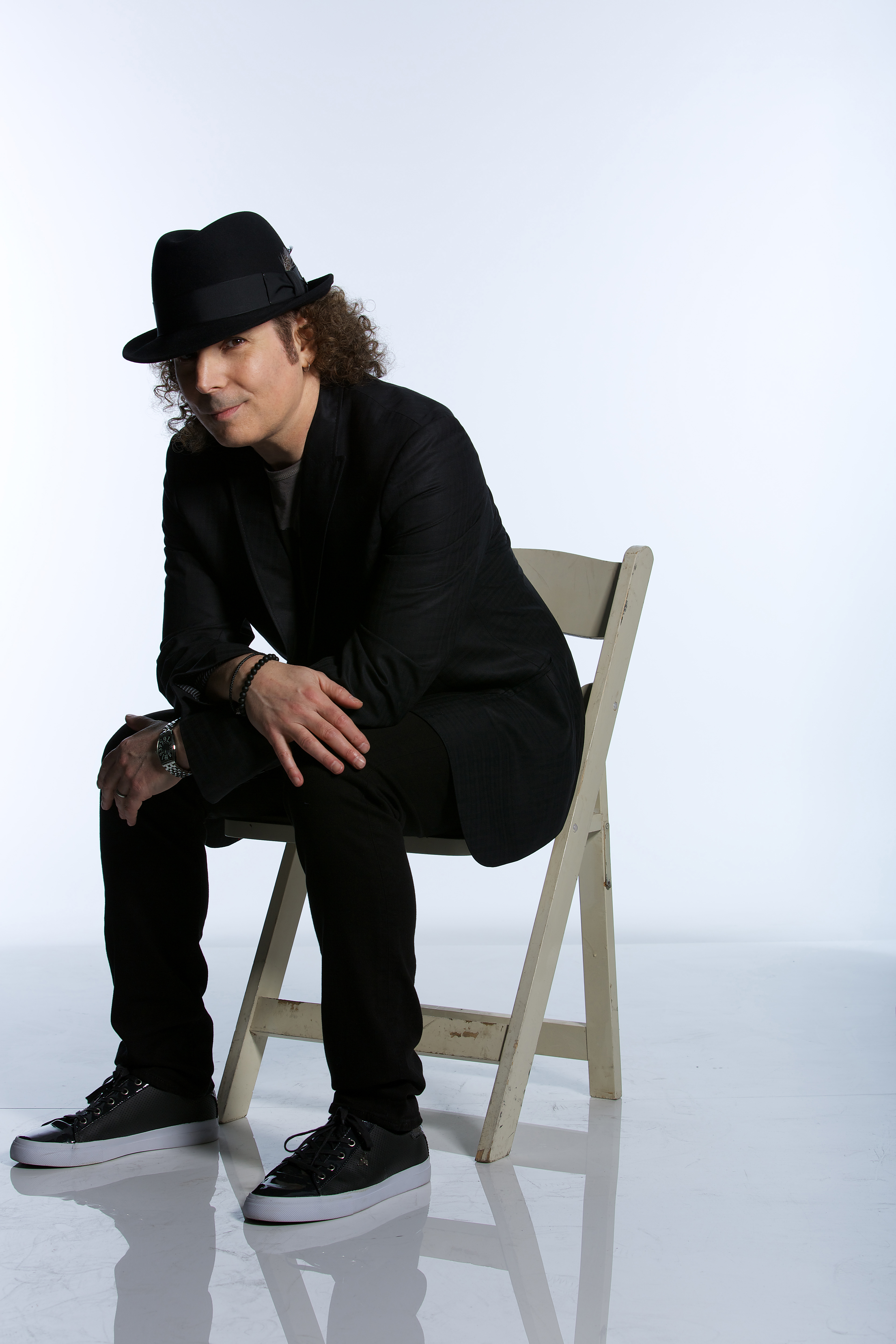 Promo pic of Boney James.